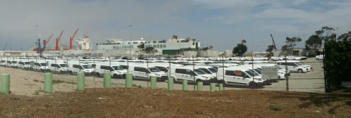 Imported vehicles in front of ship